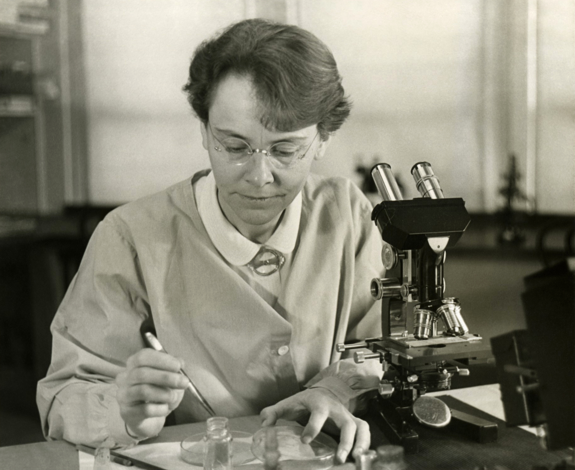 Barbara McClintock (1902-1992), Department of Genetics, Carnegie Institution at Cold Spring Harbor, New York, shown in her laboratory. This photograph was distributed when McClintock received the American Association of University Women Achievement Award in 1947 for her work on cytogenetics. (From